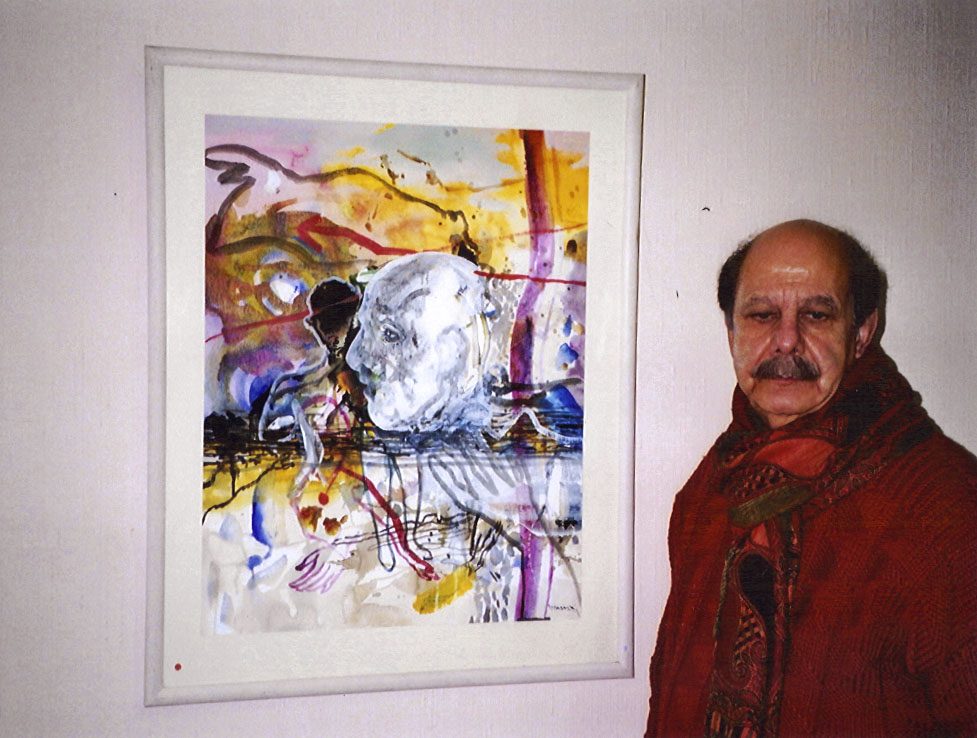 The artist Tarek Marestani besides his artwork